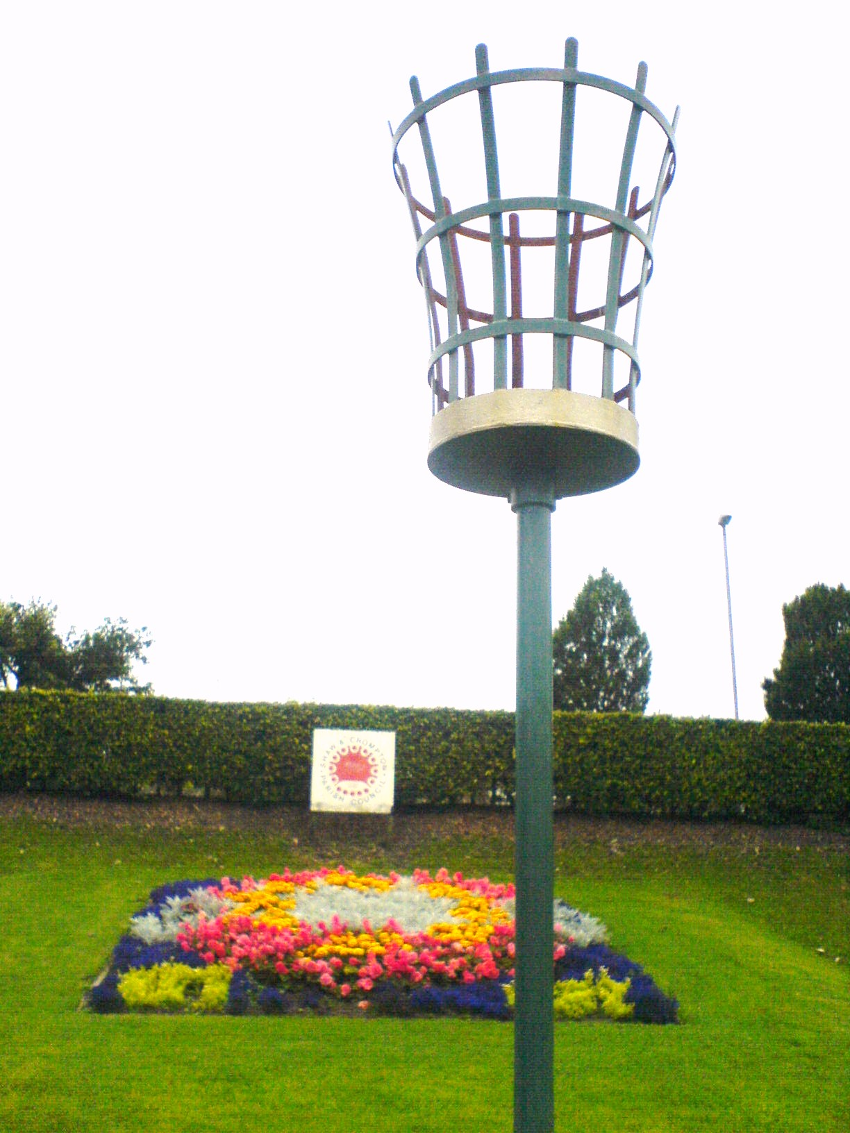 Photograph taken on en:2007-08-04 of Shaw and Crompton Beacon, Jubilee Gardens, Shaw and Crompton.